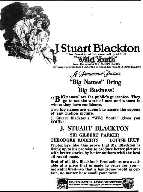 Advertisement for the American drama film Wild Youth (1918) with Jack Mulhall and Louise Huff, on page 44 of the March 8, 1918 Variety.